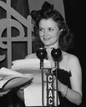 The star of French cinema, Simone Simon, surrounded by Vassal Paul and Albert Cloutier, reads a text on the Lux theater scene in a radio evening with CKAC in Montreal.